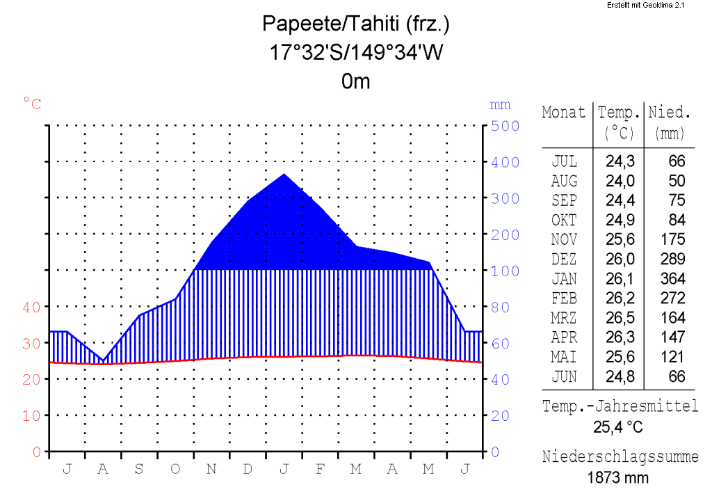 climate chart in the format by Walter and Lieth, metric, °Celsisus and millimeters, made with Geoklima 2.1